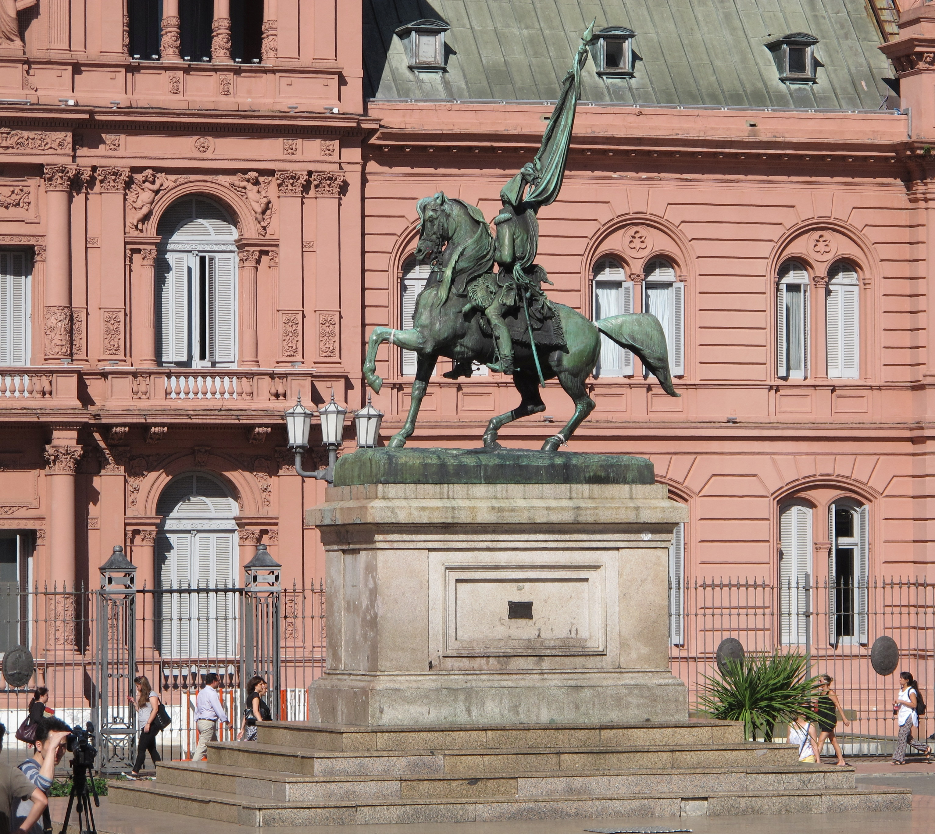 Buenos Aires - statue of Manuel Belgrano